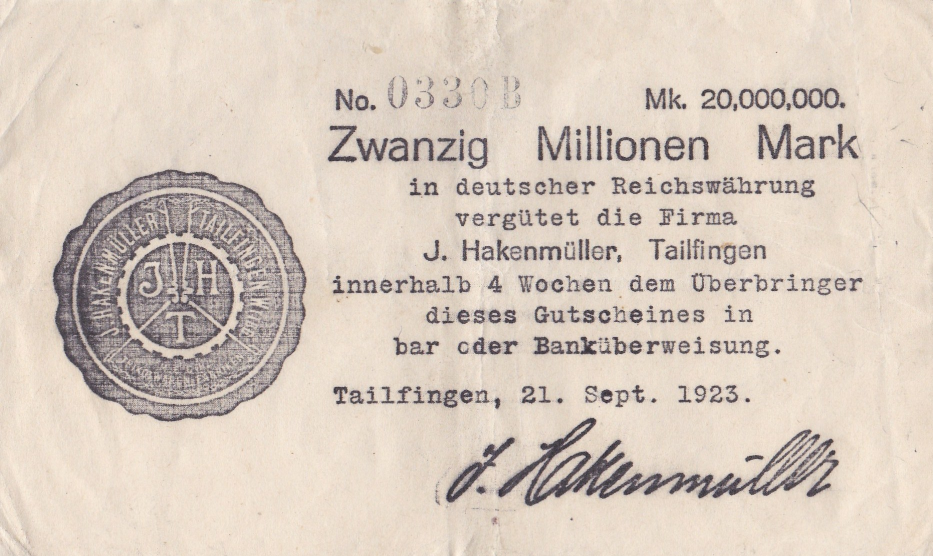 At the end oft the by First World War caused inflation in Germany 1923 the 1887 founded german textile-enterprise J.Hakenmüller in 72461 Albstadt-Tailfingen published and offered credit notes to his employess and suppliers.